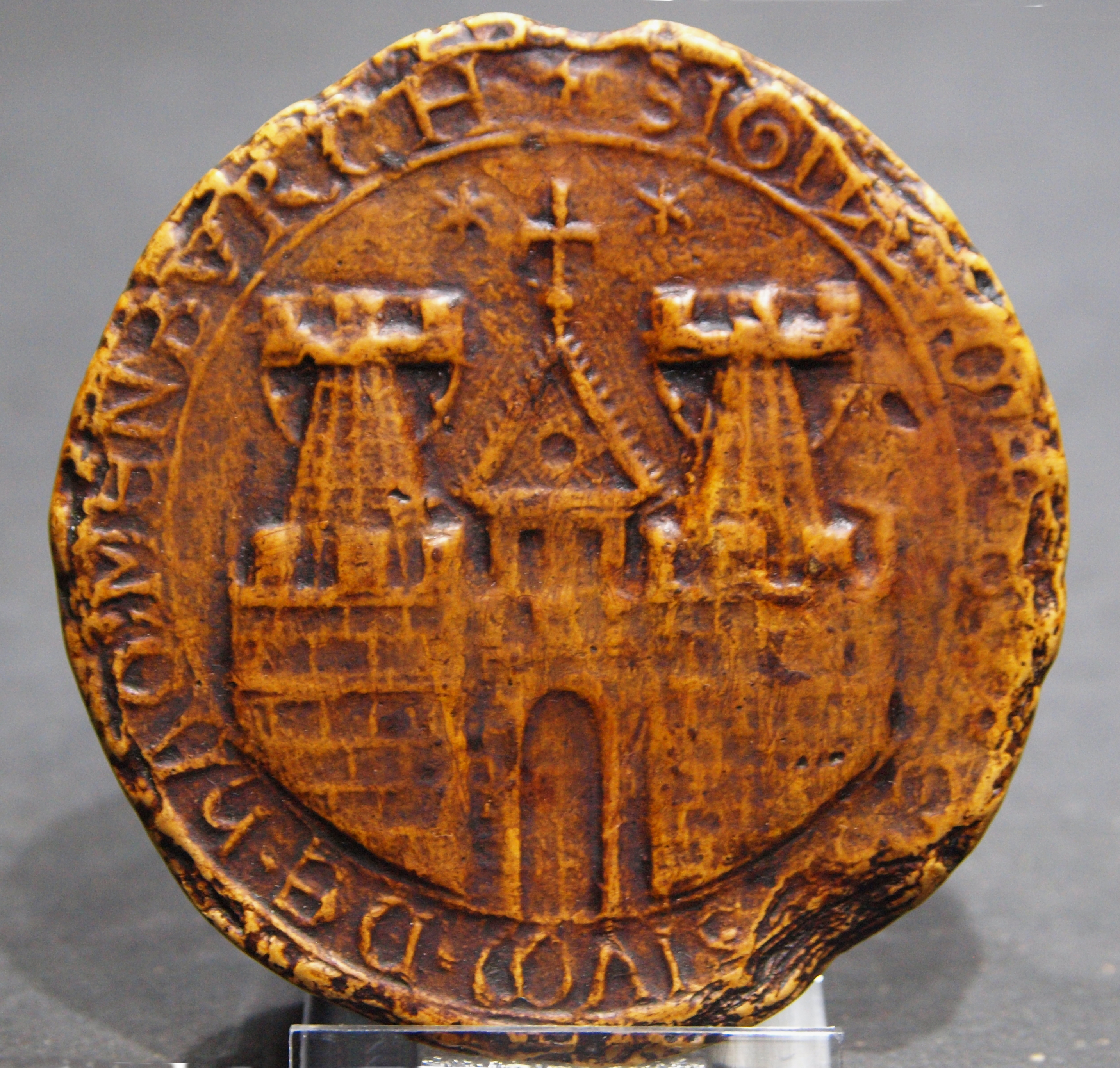 Impression of the first known seal of the City of Hamburg, Germany from 1241, replica. Repository: Archive of the hanseatic City of Lübeck, Germany. Seal in ceramic: + SIGIL..........SIVM•DE•HAMMENBVRCH [Sigillum Burgensium de Hammenburch] [Seal of the council of Hamburg]